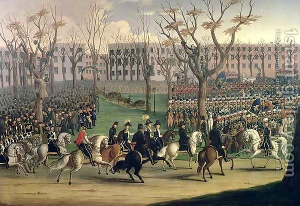 The Reception of General Louis Kossuth in New York City, 6th December 1851